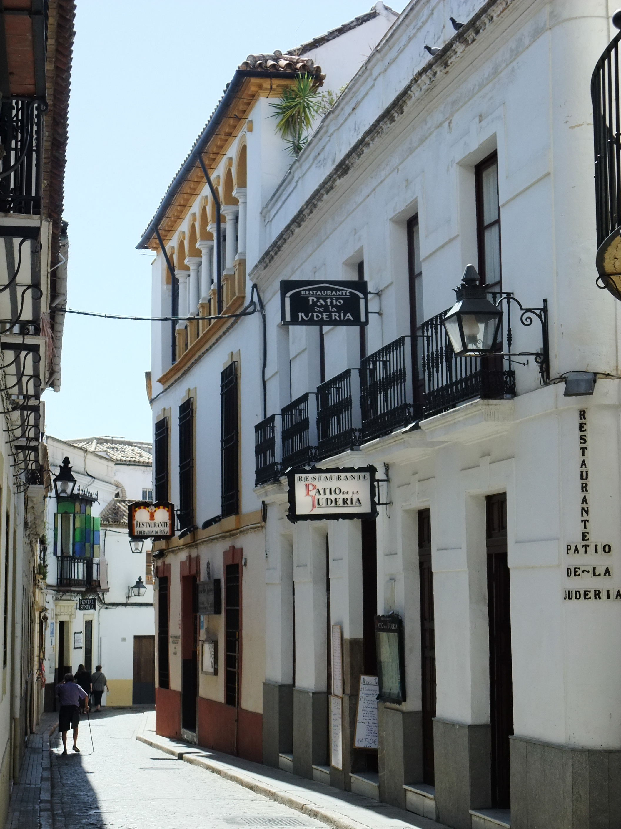 Street in the Juderia of Córdoba, Spain